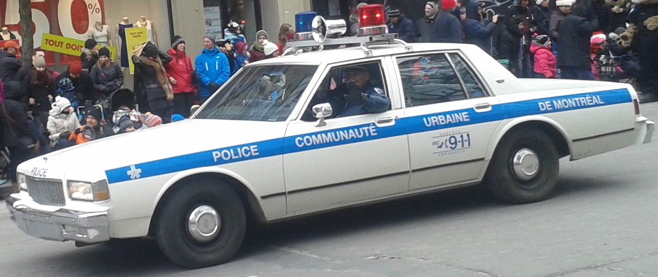 Vintage Chevrolet Caprice police car of the Montreal Urban Community photographed in Montreal, Quebec, Canada at the Montreal Santa Claus Parade.